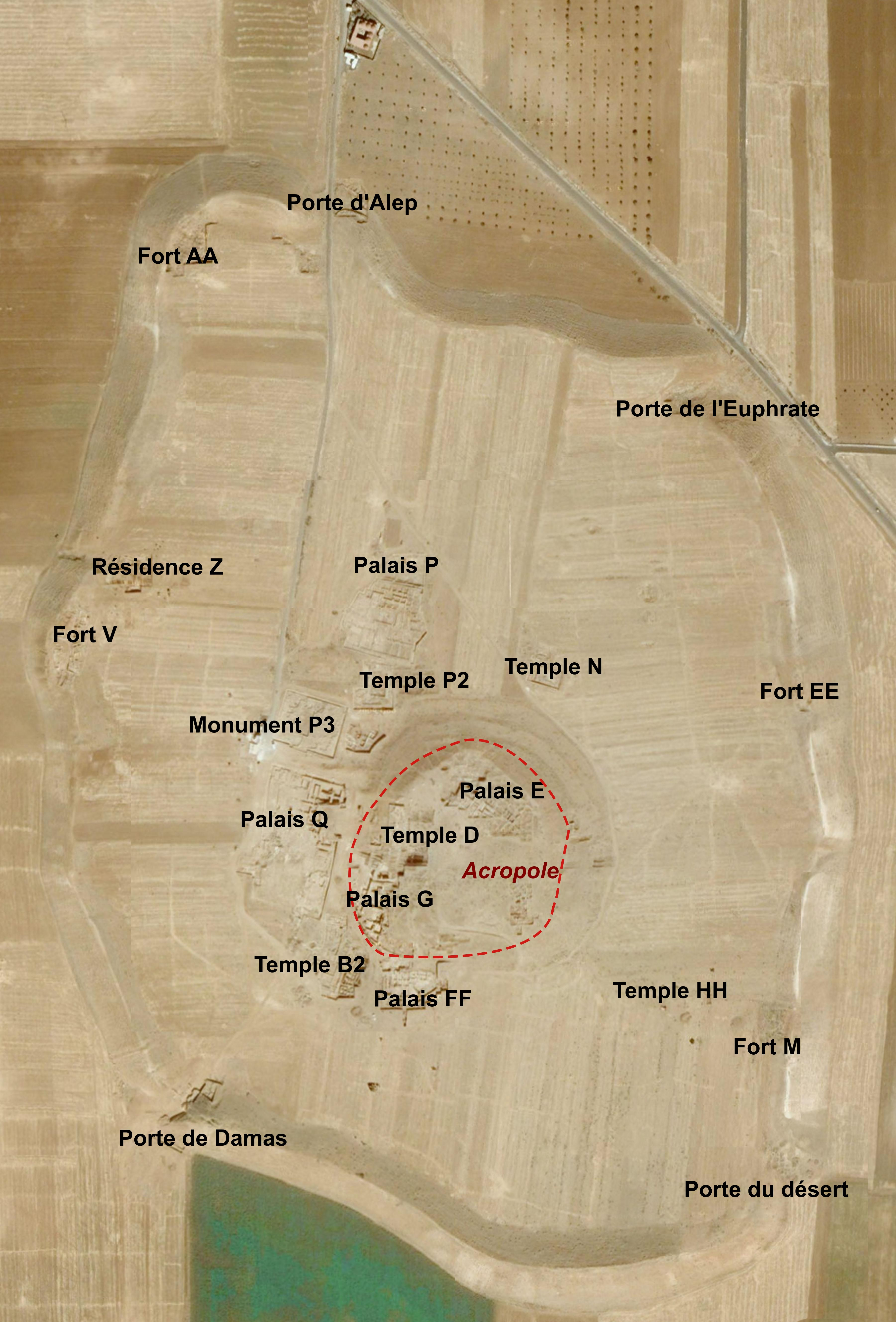 Aerial view of the archaeological site of Ebla in 2005, with the location of the main areas excavated.